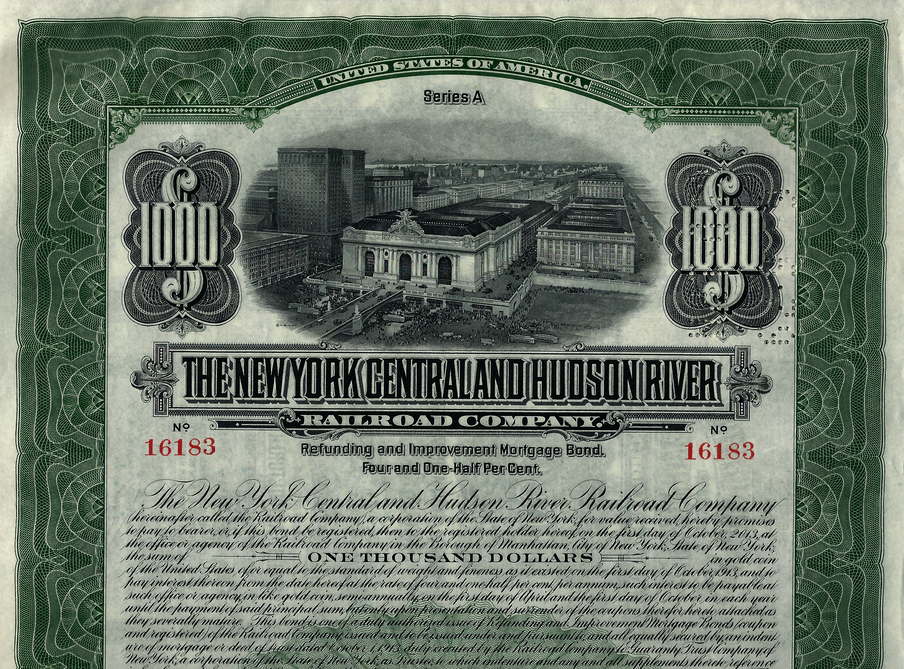 New York Central & Hudson River RR 4 1/2% Refunding & Improvement Bond Series A. This bond was issued by the New York Central Railroad subsidiary, New York Central and Hudson River Railroad Company, to finance the construction of Grand Central Terminal in 1913. The design of the new terminal is prominently featured on the top of the first sheet (shown here). This bond paid $22 every six month for one hundred years, however, payment stopped with the October 1970 cycle due to the bankruptcy of NYC&HRRR successor, Penn Central Railroad. The bond itself was printed by the American Bank Note Company of New York, in the Banknote Building next to the Bruckner Expressway in the Bronx.